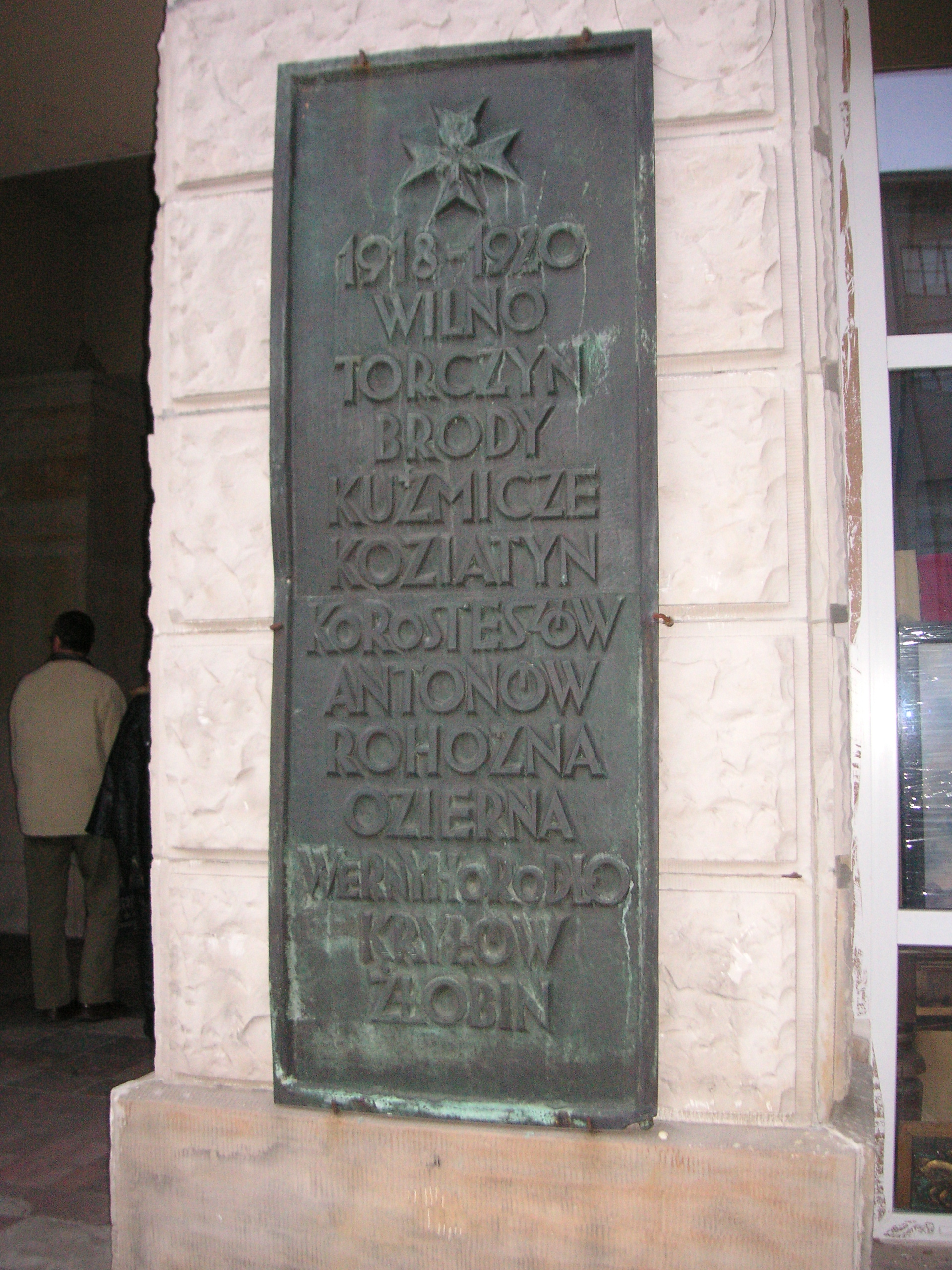 One of the original tablets from the Tomb of the Unknown Soldier in Warsaw. As it mentioned the battles of the Polish-Bolshevik War, the tablet was dismantled after the World War II by the Allied-backed communist authorities of Poland and hidden in the cellars of the Museum of the Polish Army in Warsaw. After Poland regained her independence in 1989, the tablets were restored and are currently on exhibition in the same museum, while the tablets on the actual Tomb were refurbished and extended to include the original battles as well.